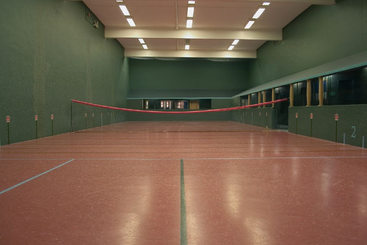 Harbour Club real tennis court in England.